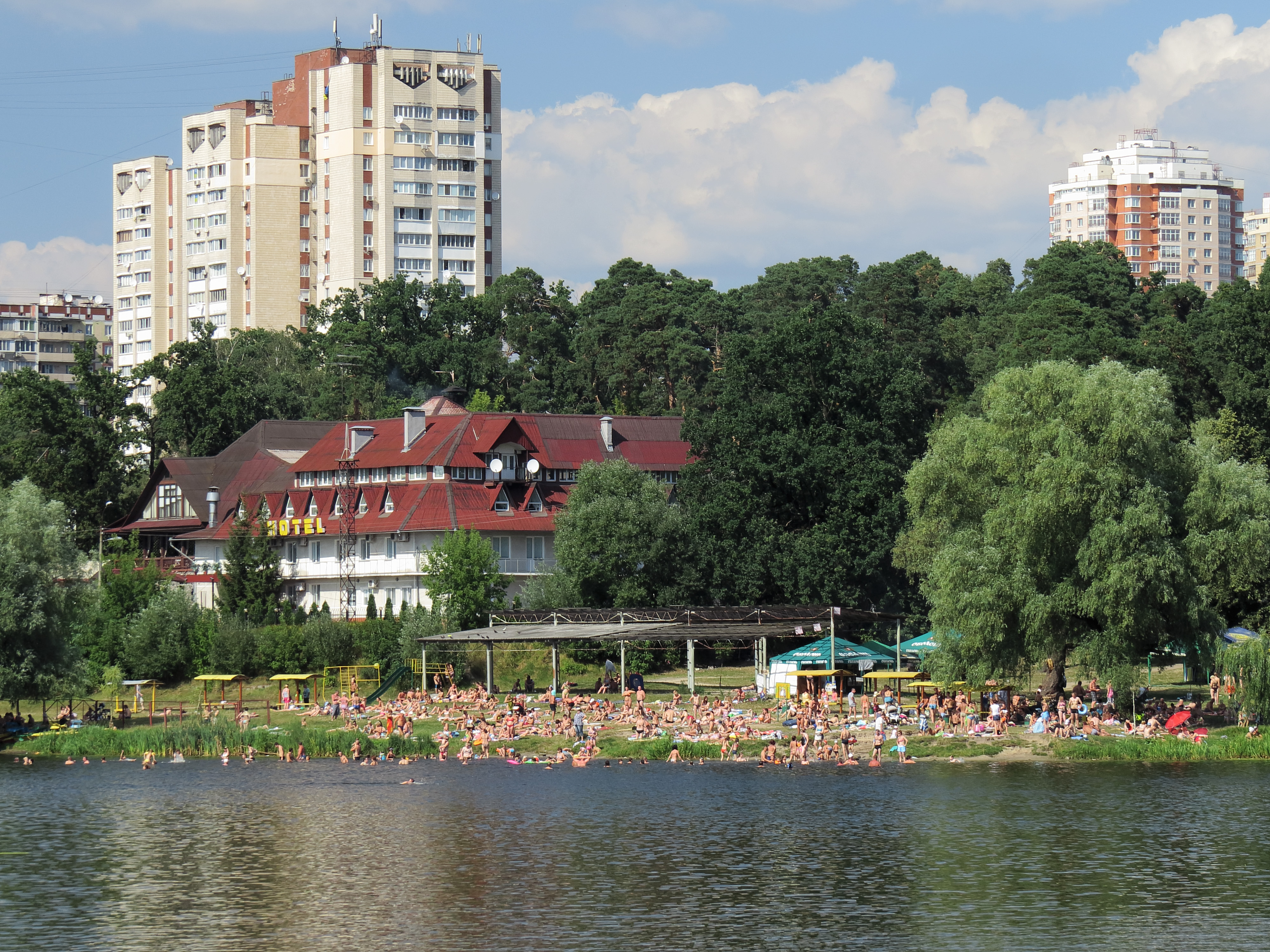 Svyatoshyn pond №14, Kiev, Ukraine. "Verkhovyna" hotel and restaurant